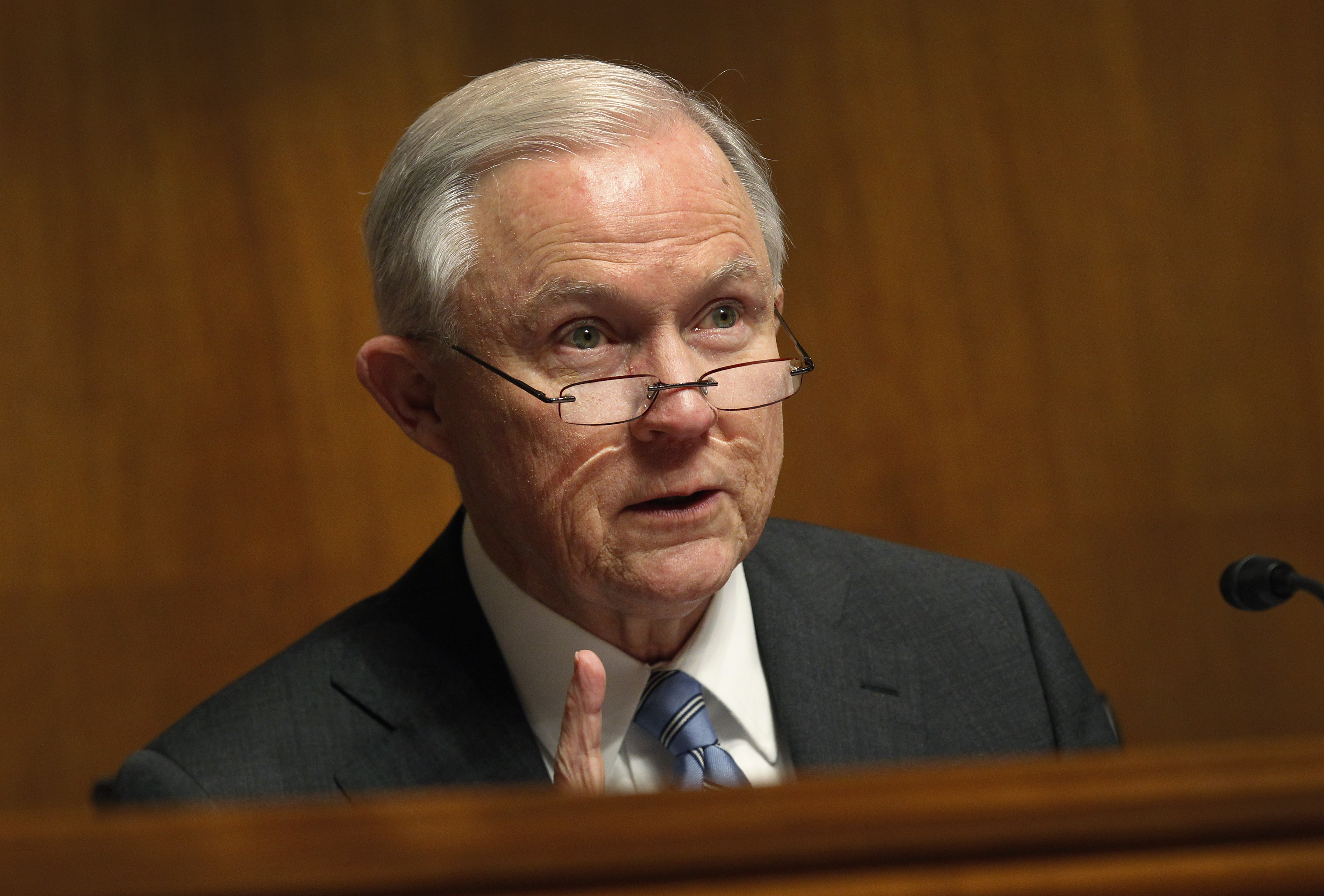 Senate Judiciary Committee Chairman Sen. Jeff Sessions (R-AL) makes opening remarks to a panel of Department of Homeland Security officials John Wagner, deputy assistant commissioner of the U.S. Customs and Border Protection's Office of Field Operations; Anh Duong, director of Border and Maritime Division of Homeland Security's Advanced Research Projects Agency; Craig Healy, assistant director of Immigration and Customs Enforcement's National Security Investigations Division; and Rebecca Gambler,director of Homeland Security and Justice Issues of the U.S. Government Accountability Office, as they testify about the unimplemented biometric exit tracking system before the Senate Subcommittee on Immigration and the National Interest, in Washington, D.C., Jan. 20, 2016. (CBP Photo by Glenn Fawcett)